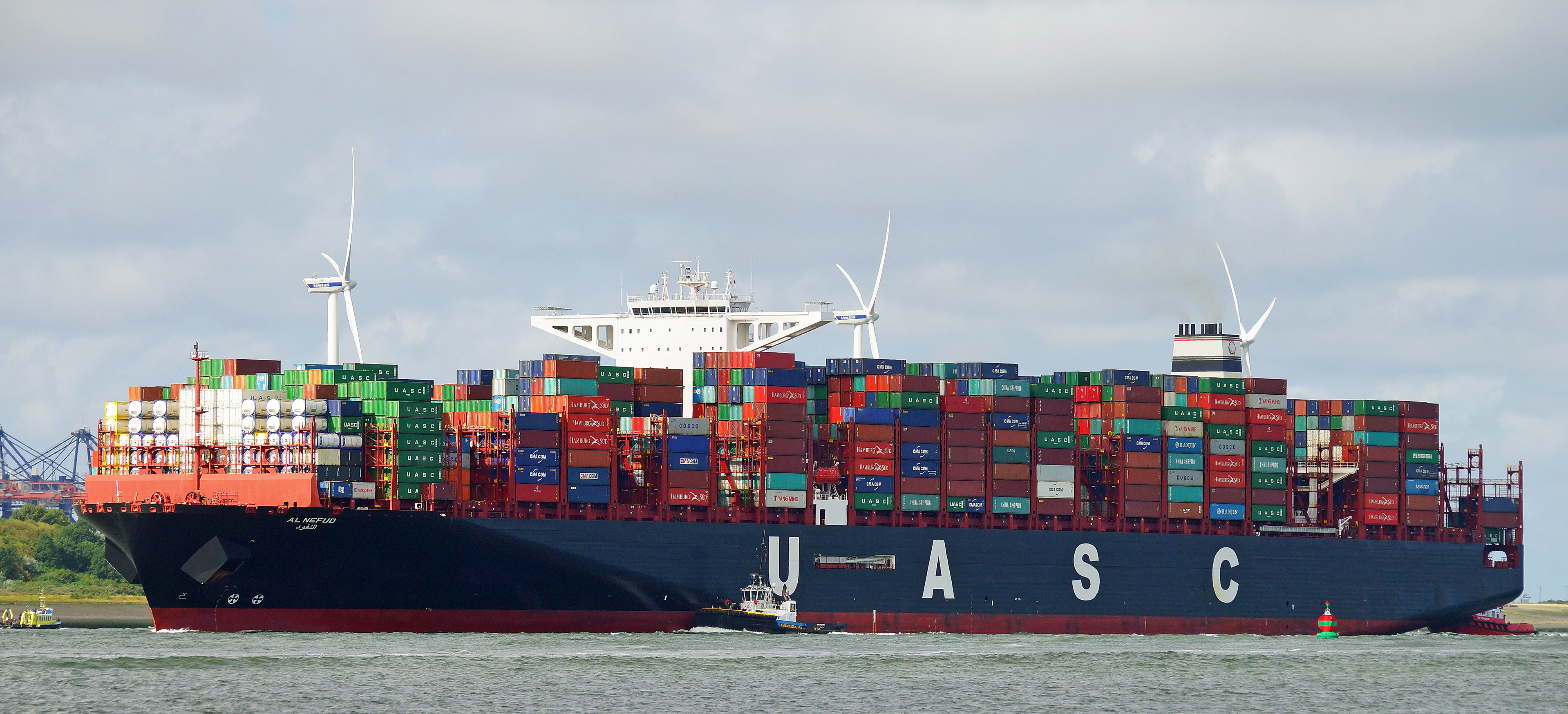 Container ship Al Nefud, Maasmond, Rotterdam.